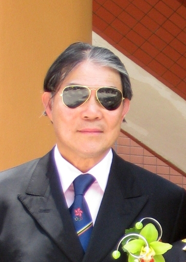 cropped for Tim Fok